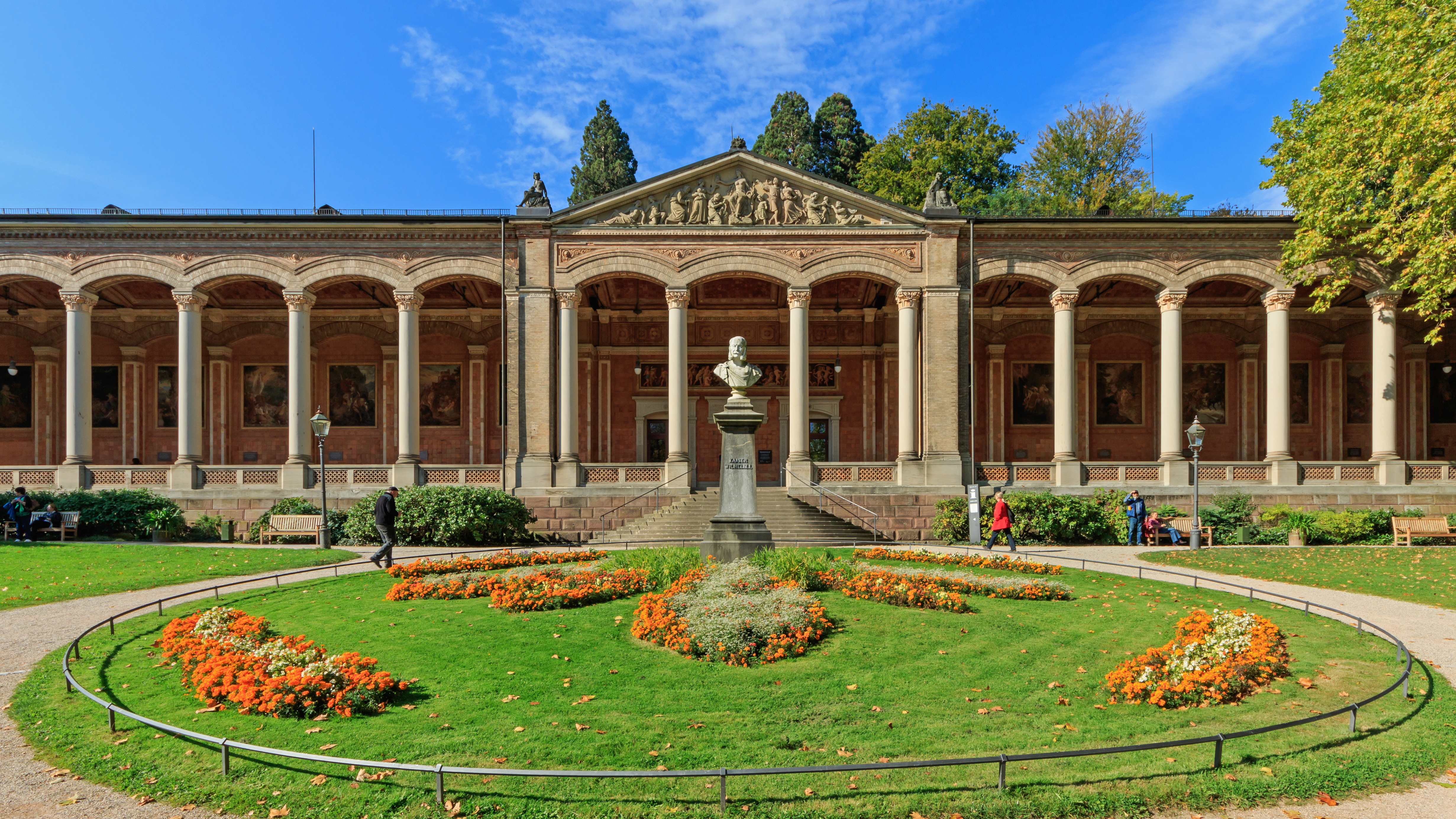 The pump house in Baden-Baden (BW, Germany).